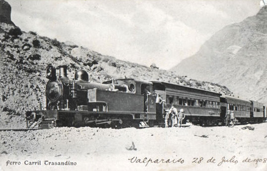 A train of defunct "Ferrocarril Trasandino" railway line photographed in Valparaíso, Chile. This railway connected Mendoza Province (Argentina) with the city of Santa Rosa de los Andes (Chile). The railway remained active from 1910 to 1984.